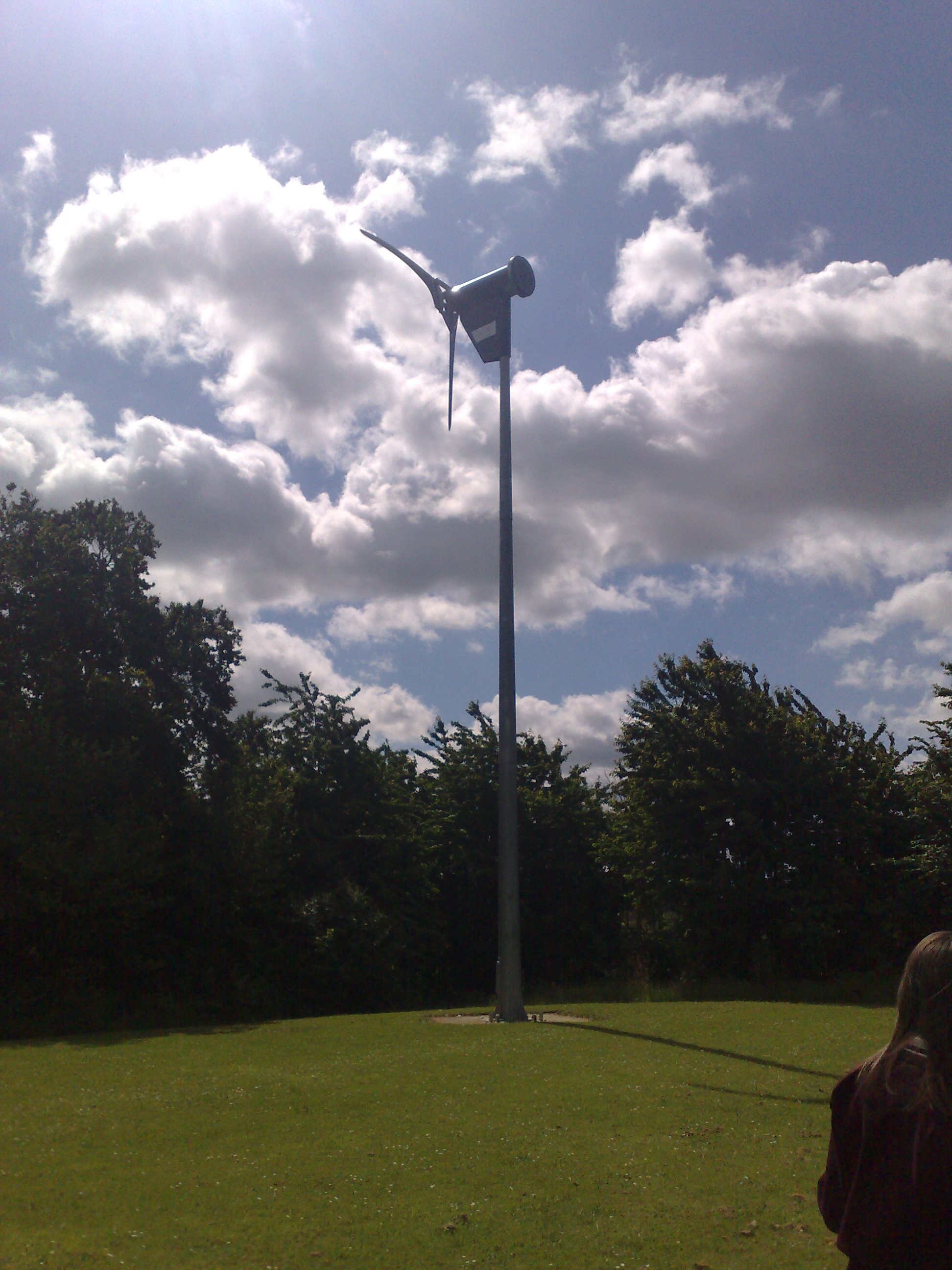 Astley Cooper School wind turbine